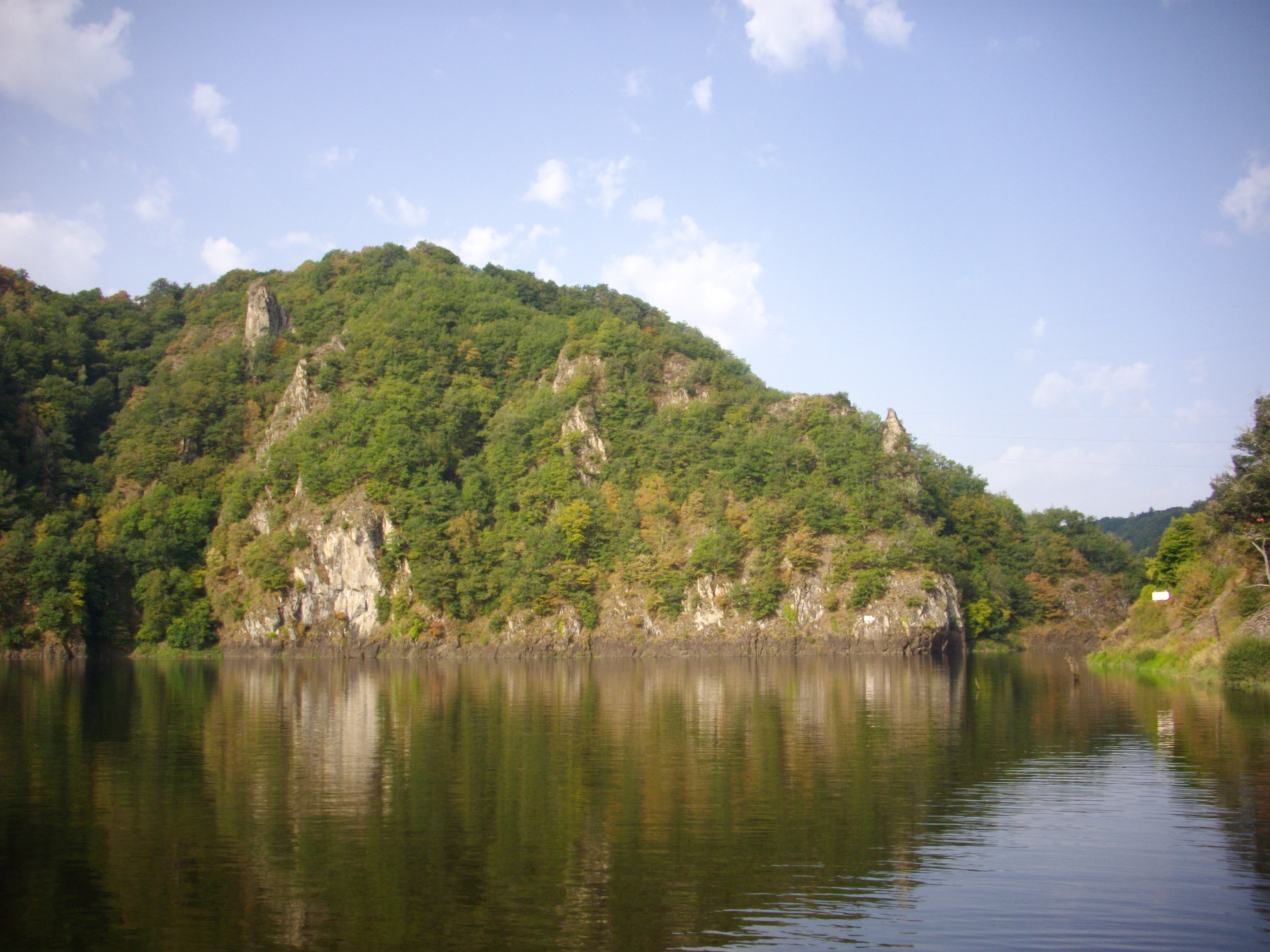 Diège river at its confluence with Dordogne river, communes of Roche-le-Peyroux and Saint-Julien-près-Bort (Corrèze, France).